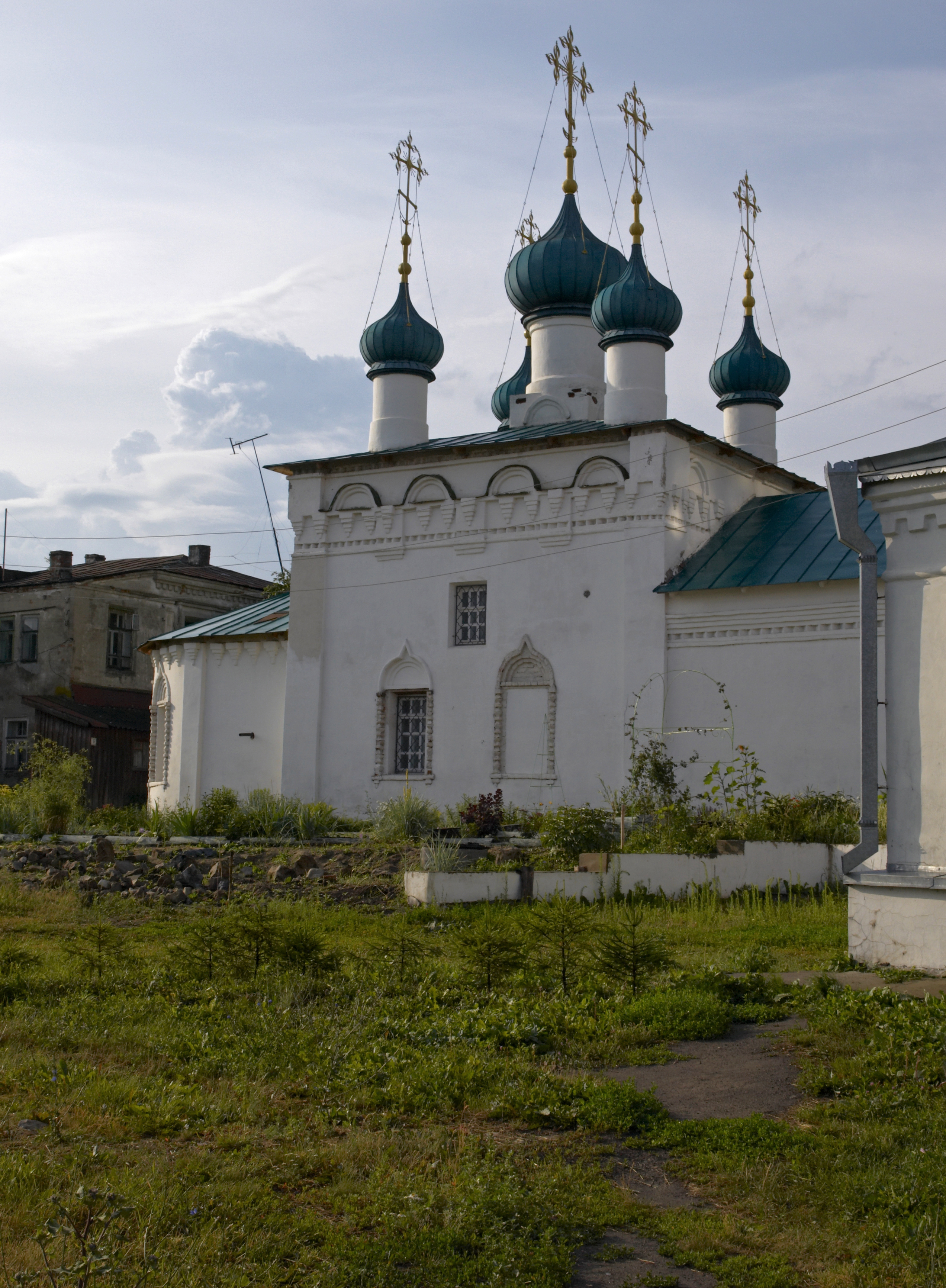 John the Baptist Church, Alatyr' (1703)